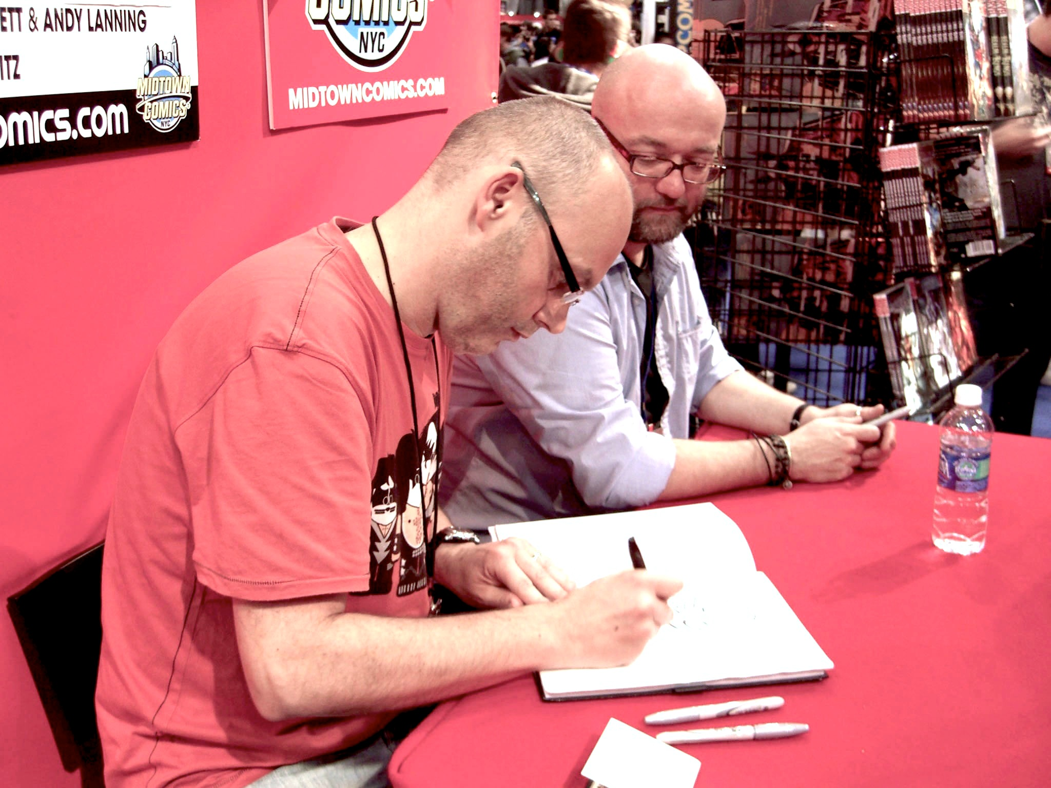 Comic book creators Andy Lanning (foreground, doing an Iron Man sketch) and Dan Abnett, at the Midtown Comics booth at the New York Comic Convention in Manhattan, October 10, 2010. Photo by Luigi Novi. This photo may be used, modified and published for any purpose, only if a easily visible credit to the photographer is placed near the photo in each instance in which it is used. (See licensing information below.) Publication of this photo without this proper attribution constitute copyright infringement. For more information on my photos, you can contact me here.